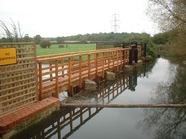 The weir and sluice This weir and bridge was rebuilt during 2006 by Whitbread who run the mill. There is a milling demonstration on the fourth Saturday of the month carried out by Hampshire Mills Group.